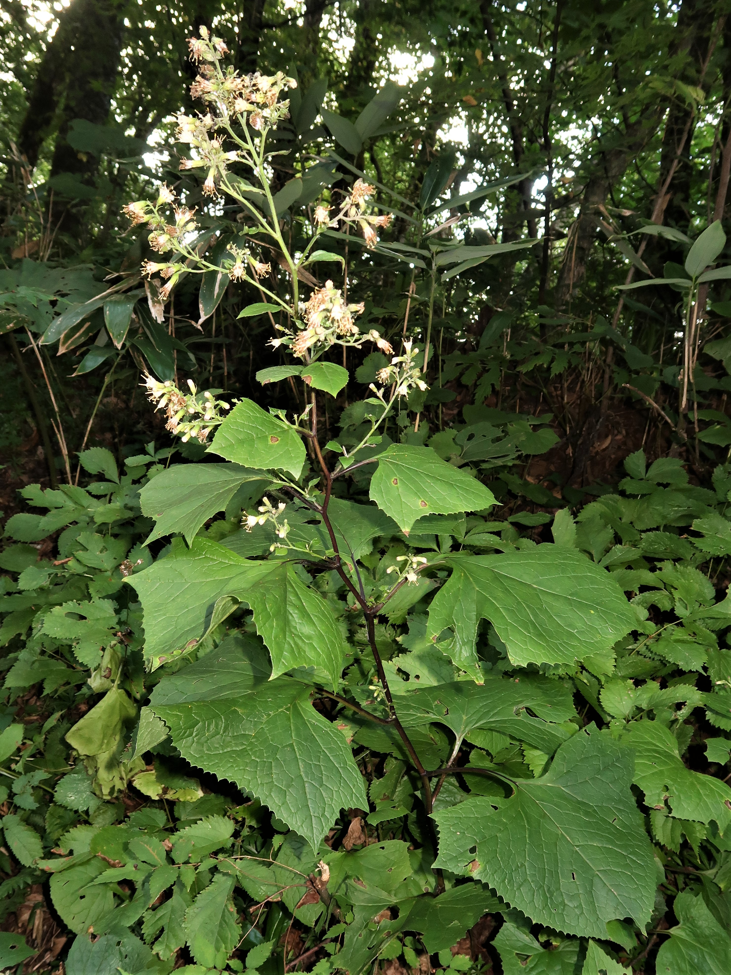 Parasenecio hosoianus, Fukaura town, Aomori pref., Japan